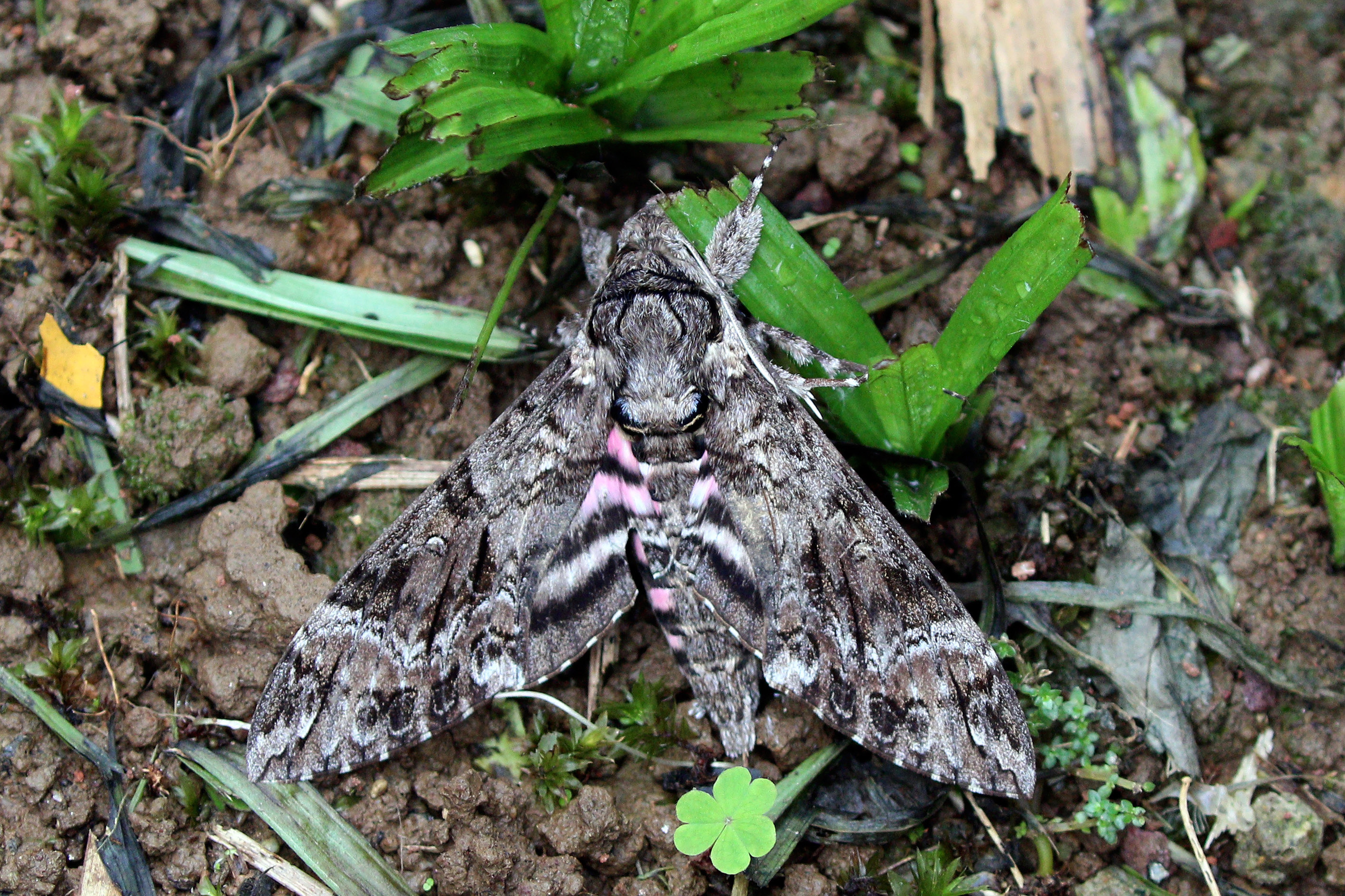 Pink-spotted hawkmoth (Agrius cingulata), Sao Paulo, Brazil